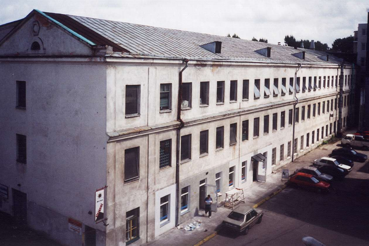 Building of the former Elektrit Radio Company in Vilnius, 2001 view.